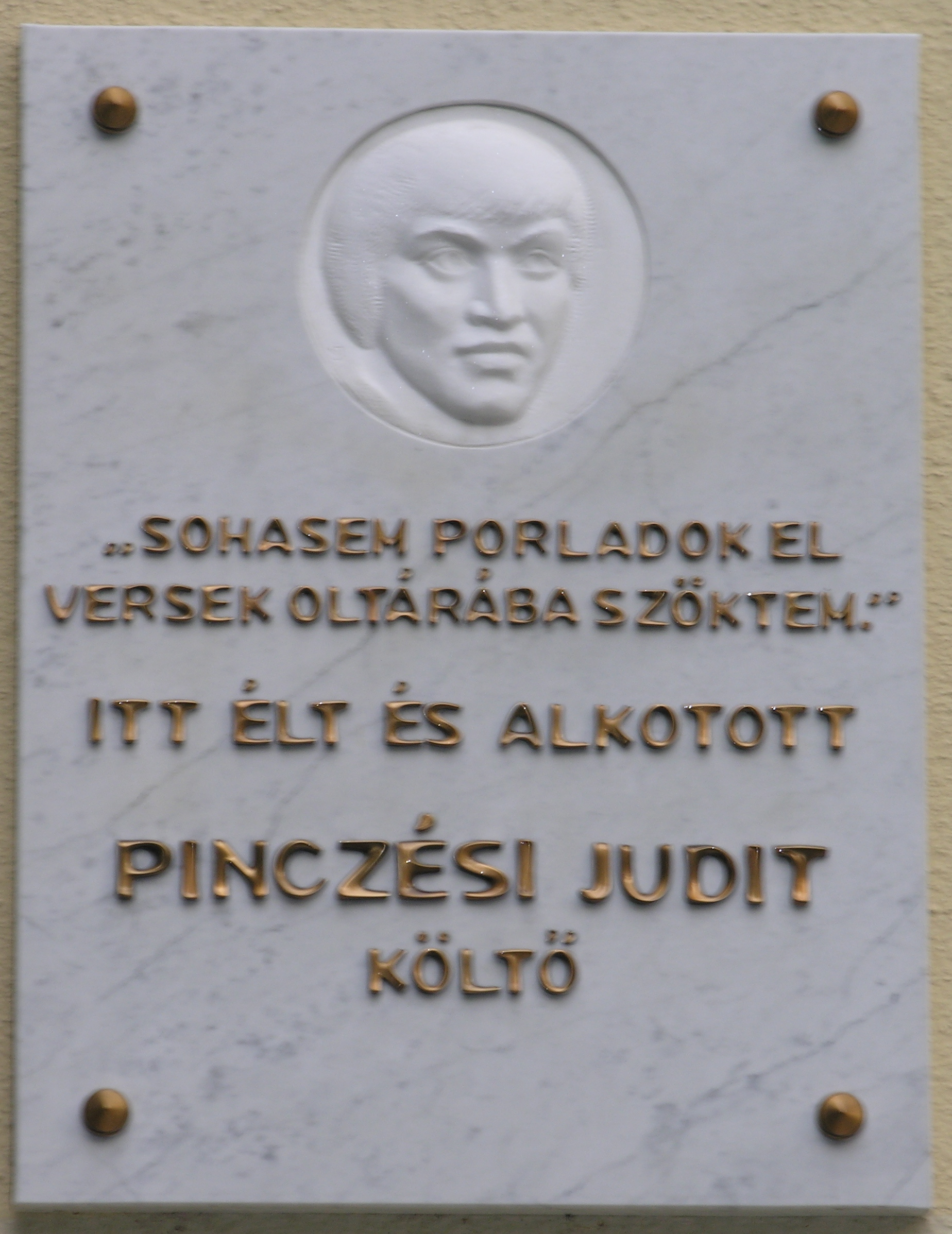 Judit Pinczési commemorative plaque with relief in Budapest District II, Nagyajtai Street No 1/b